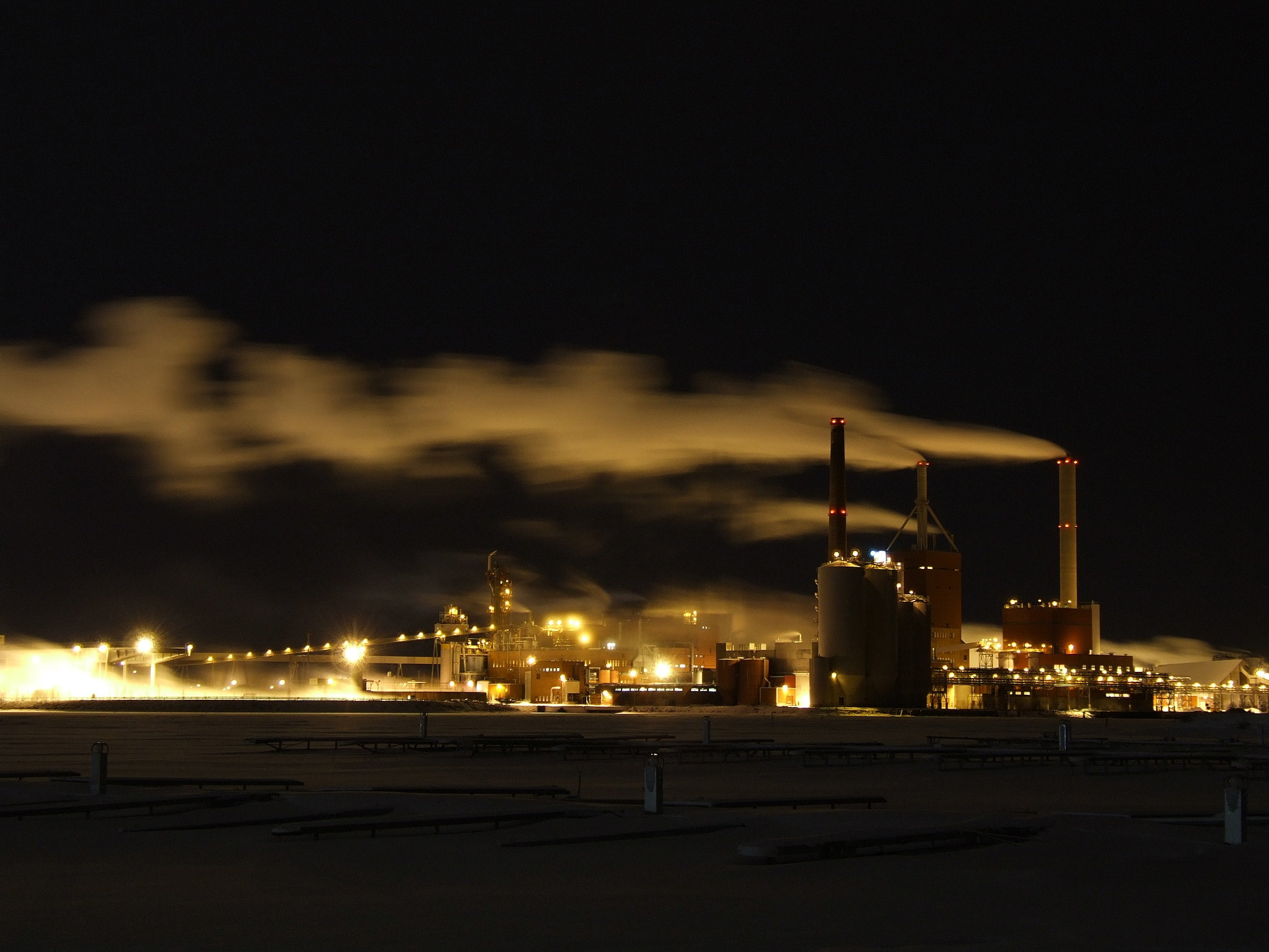 A night picture of Stora Enso Pulp and Paper Mill in Oulu, Finland. Picture was taken from Hietasaari. Weather: −1 °C.